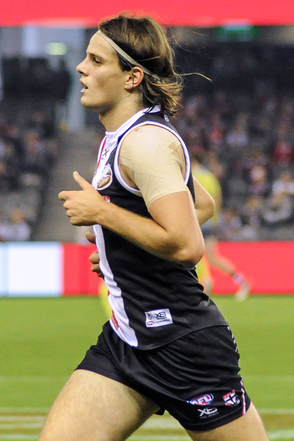 Hunter Clark during the AFL round five match between St Kilda and Greater Western Sydney on 21 April 2018 at Etihad Stadium in Melbourne, Victoria.